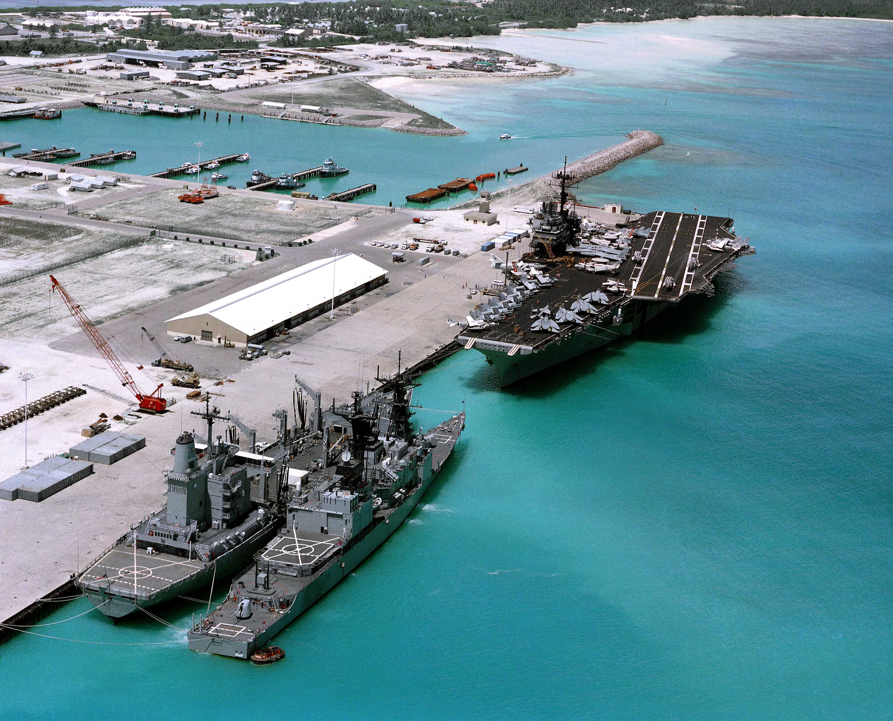 The U.S. Navy aircraft carrier USS Saratoga (CV-60), the guided missile destroyer USS Scott (DDG-995), and the fleet oiler USS Monongahela (AO-178) tied up at a pier at Diego Garcia on 16 December 1985. This was the first time an aircraft carrier has visited the island. Saratoga, with assigned Carrier Air Wing 17 (CVW-17), was deployed to the Mediterranean Sea and the Indian Ocean from 26 August 1985 to 16 April 1986.